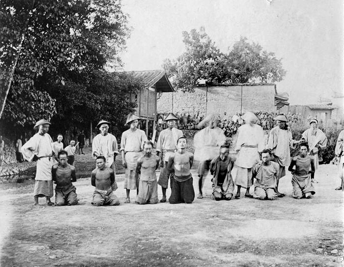 Kucheng Massacre, Before Execution.